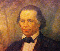 Melchor Ocampo (died 1861)